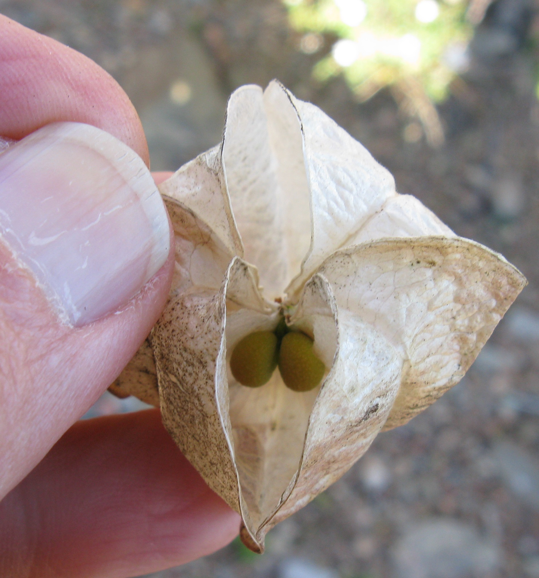 Nymania capensis Seed capsule, showing paired seeds in one locule, nearly ripe. Fully ripe seeds would be brown to black.